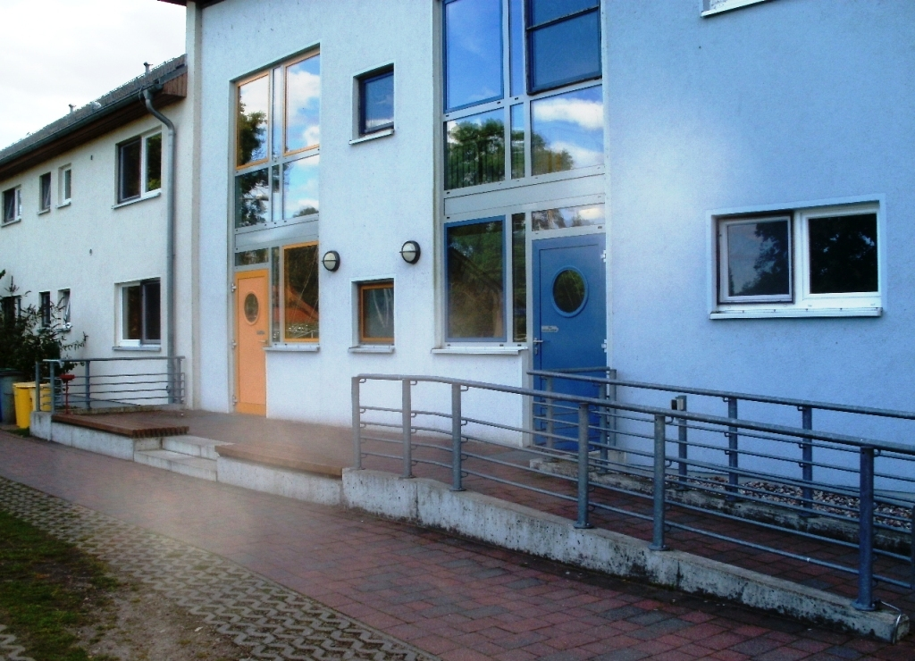 The barrier-free Non-profit Hostel and educational Institution ZERUM in Ueckermünde, Mecklenburg-Vorpommern /Germany